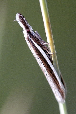 Picture taken in Commanster, Belgian High Ardennes . Species: Pleurota bicostella